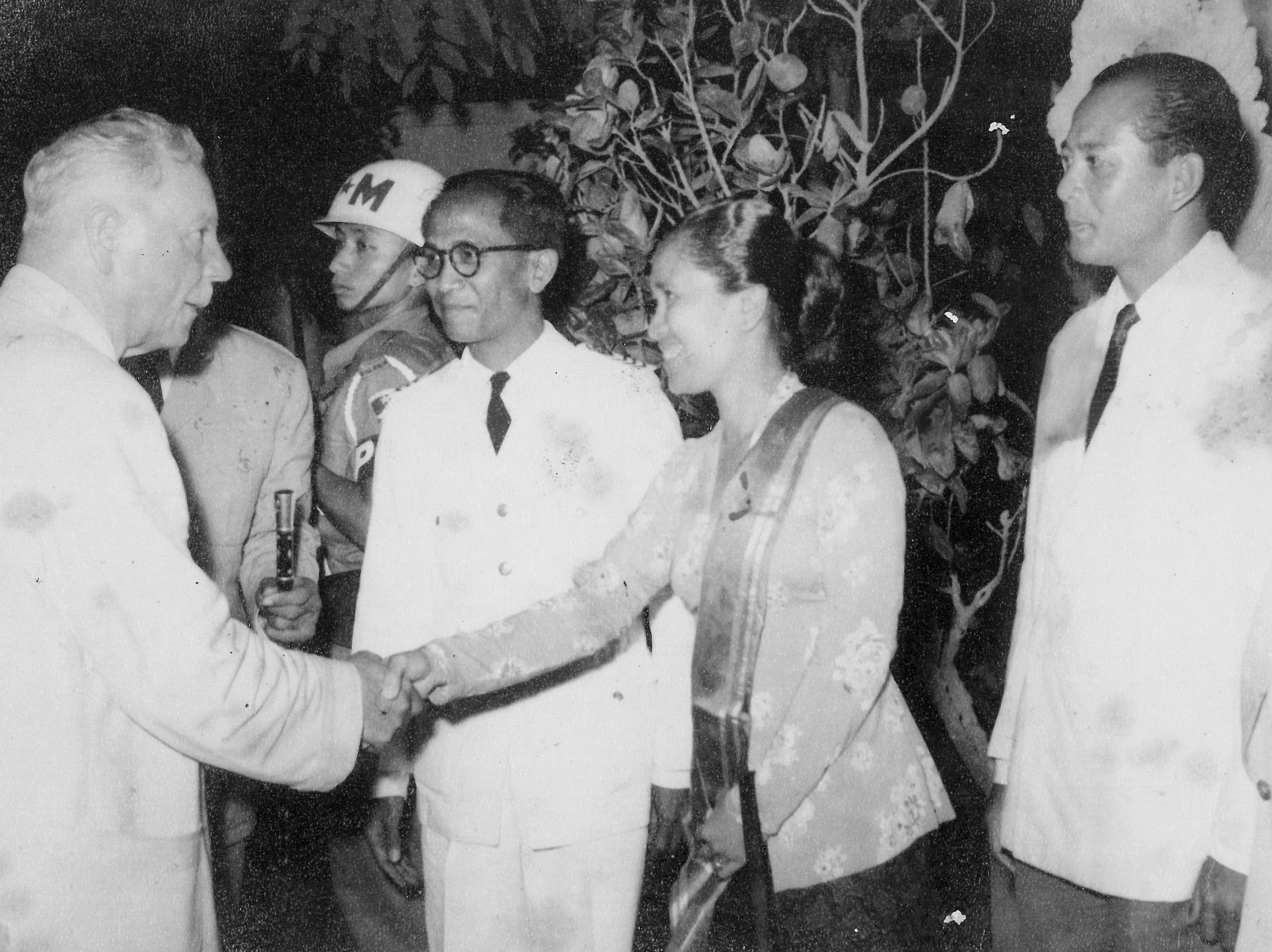 I Gusti Bagus Oka with Klim Voroshilov